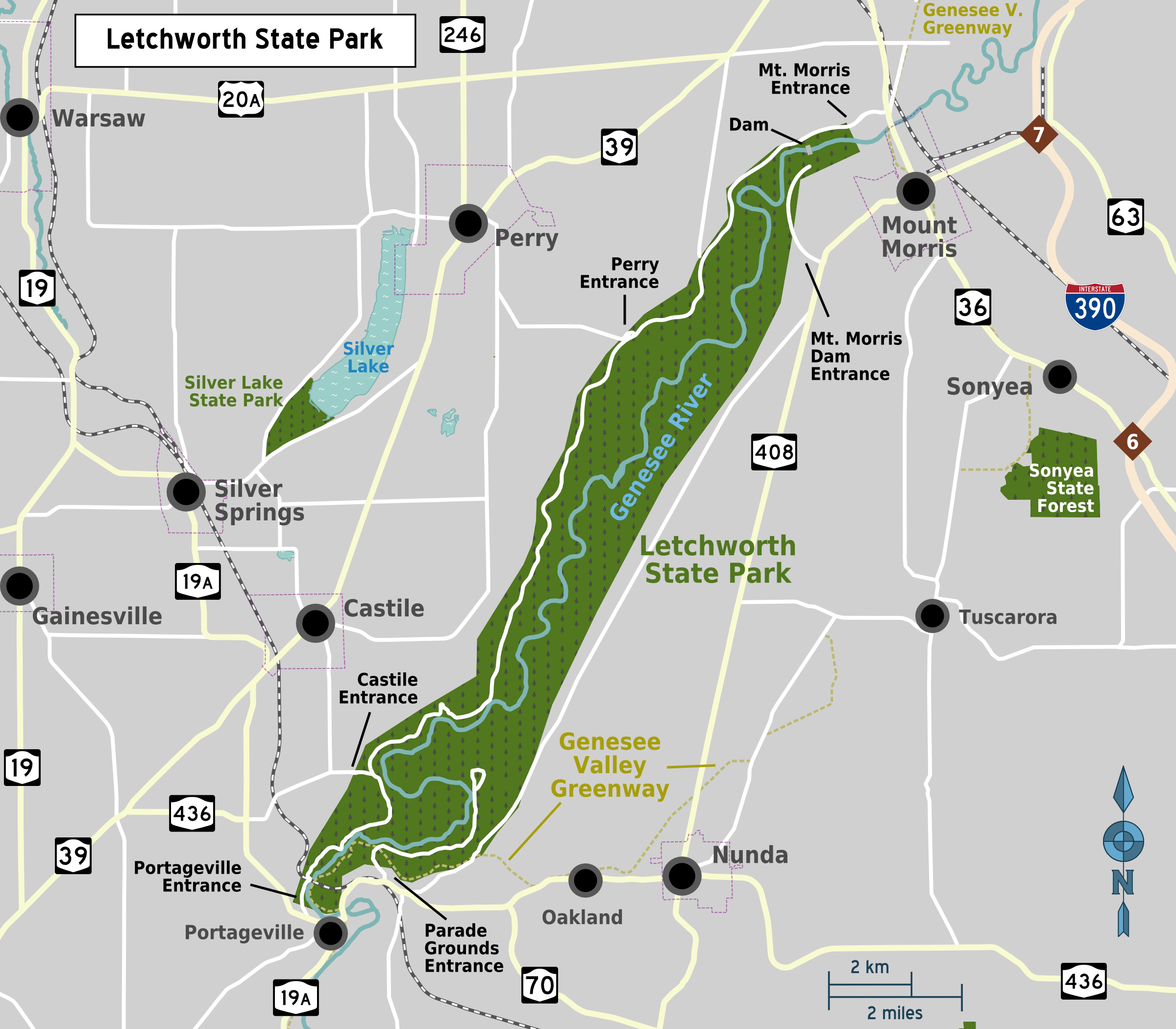 Overview map showing Letchworth State Park in the state of New York, and various approach routes. This PNG file was generated from a multilanguage SVG source file, listed in Other Versions. If you want to modify this map, modify the SVG and then re-export this and all other single-language PNGs.